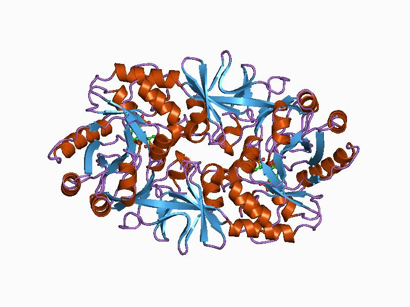 Cartoon representation of the molecular structure of protein registered with 1bd0 code.